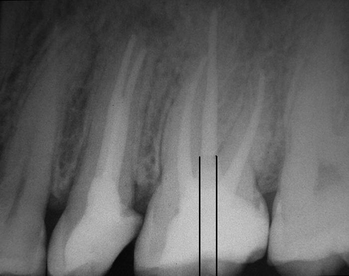 Tooth with amalgam filling, cutting lines for Hemisektion marked.